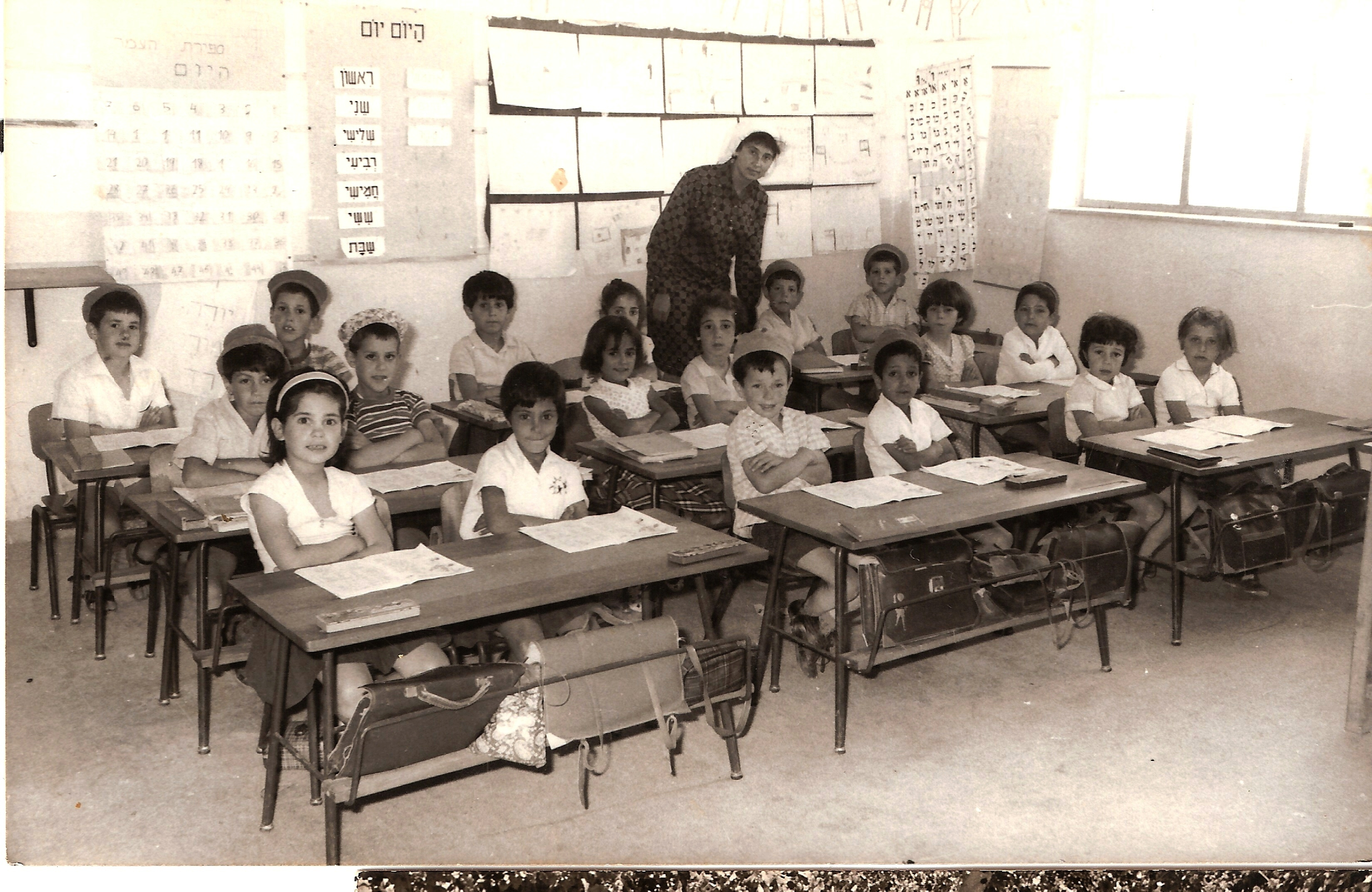 Education in Israel